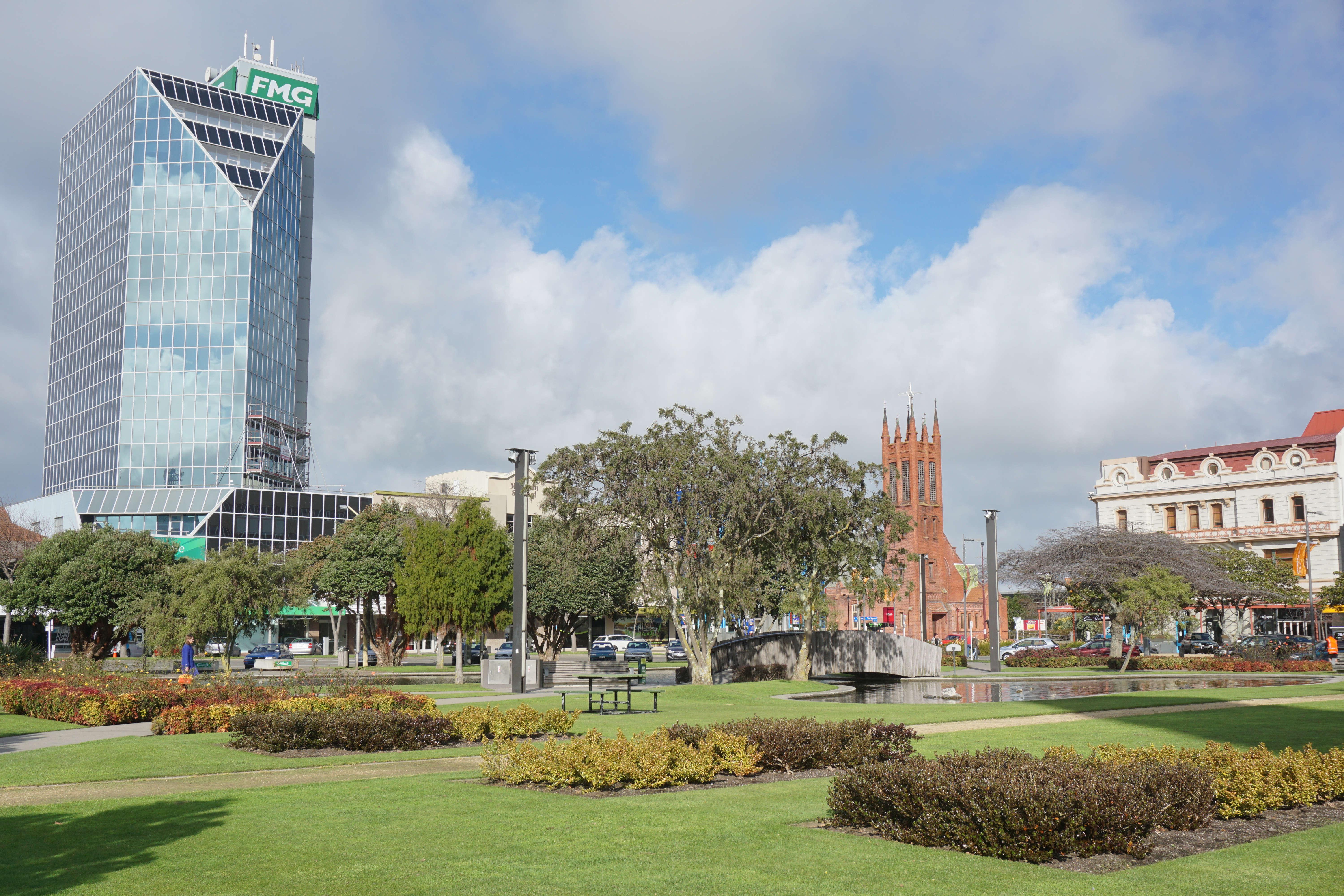 The Square Palmerston North and CBD at the back